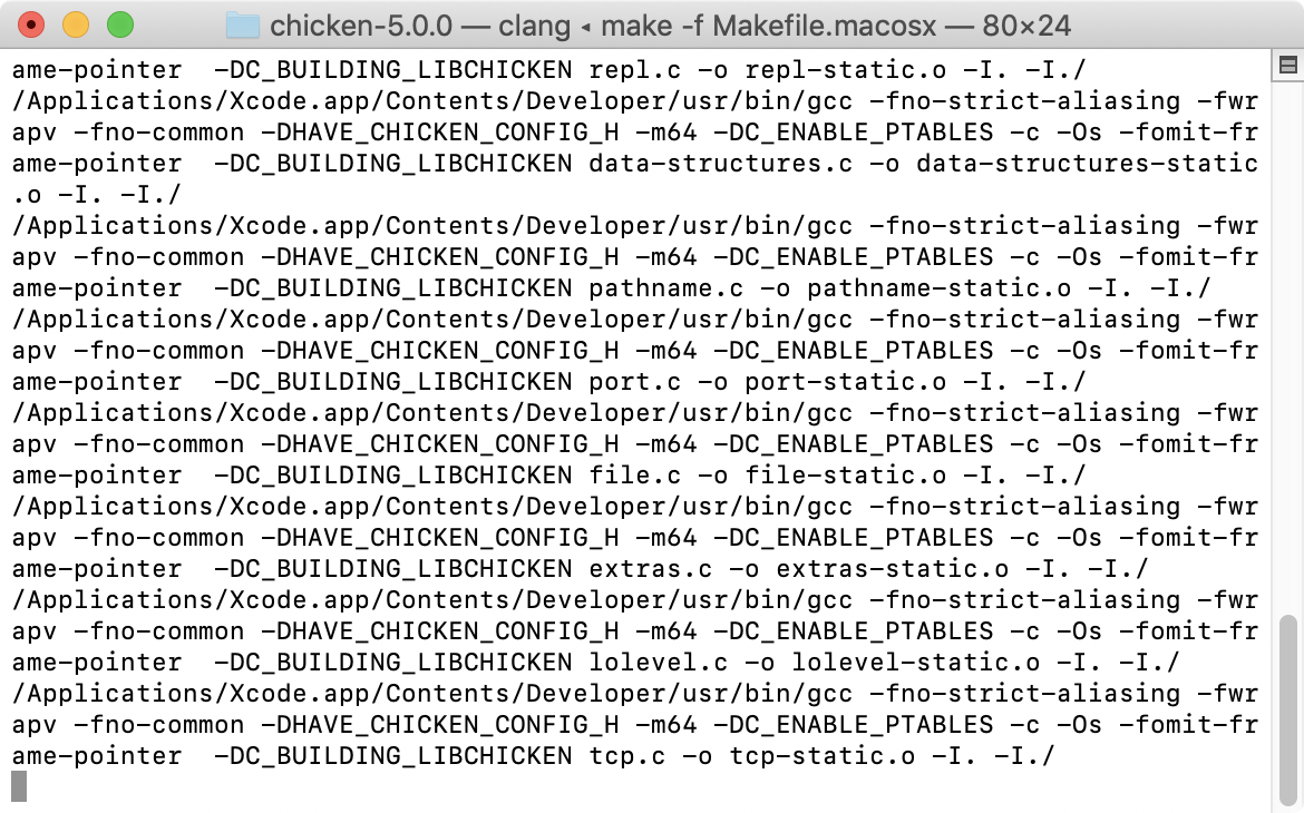 Clang being used to compile Chicken 5.0.0 on macOS.